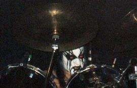 Frost live with 1349 in Oslo, Norway, in 2001